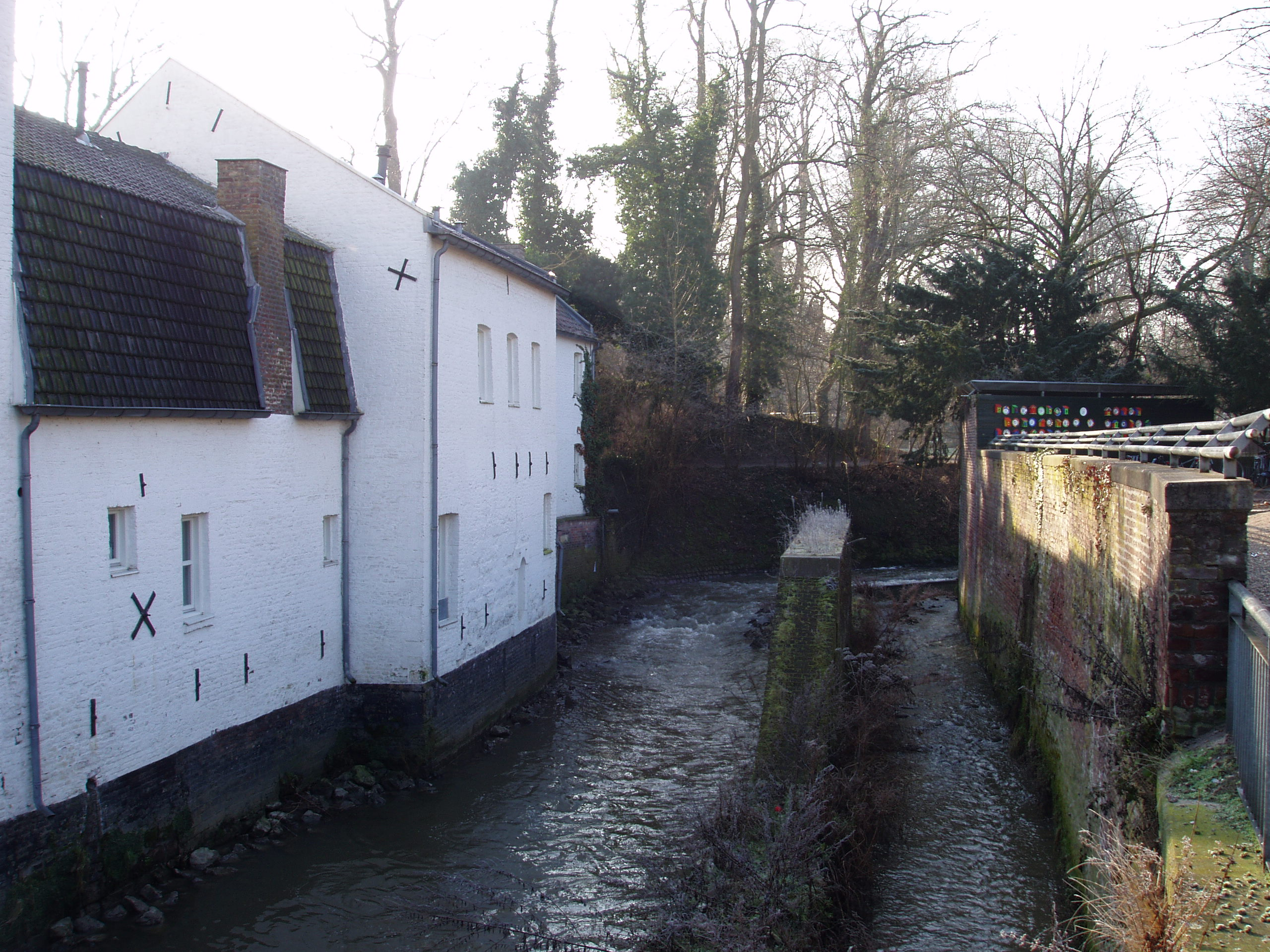 Watermill De Vijf Koppen, Maastricht, Limburg, Netherlands